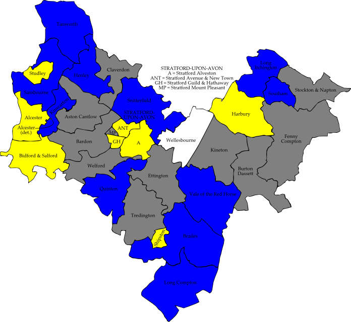 A map of the results of the 2010 Stratford-on-Avon Council election. Colour legend by wards won: Conservative party Liberal Democrats Independent Wards in grey were not contested in 2010.